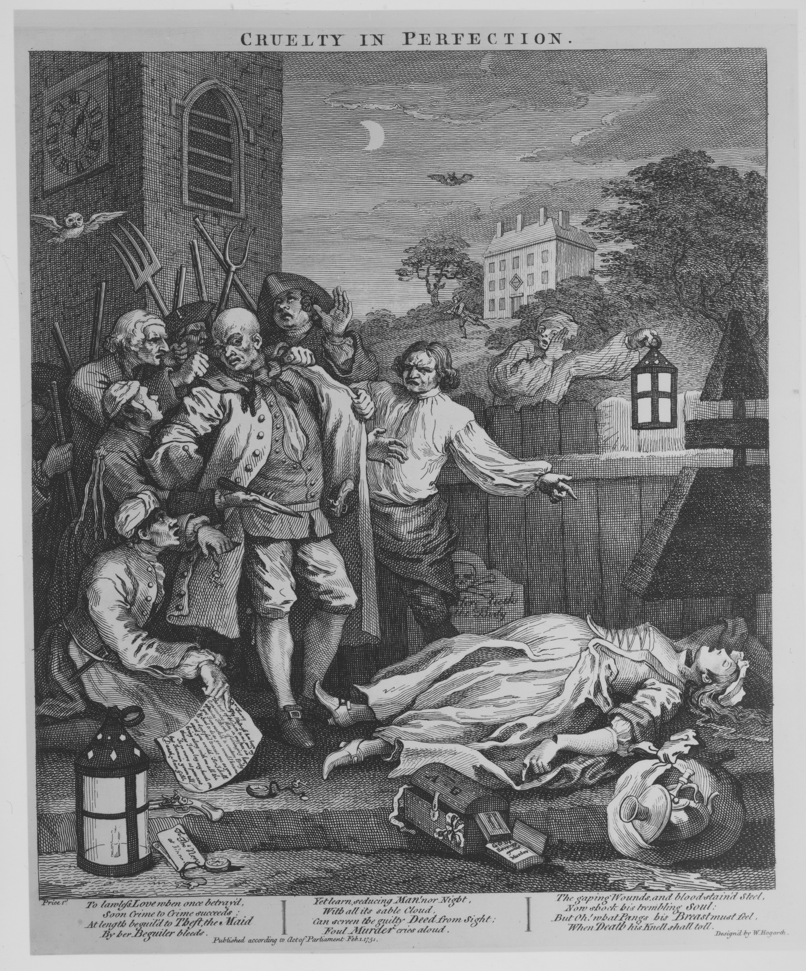 Print; Prints